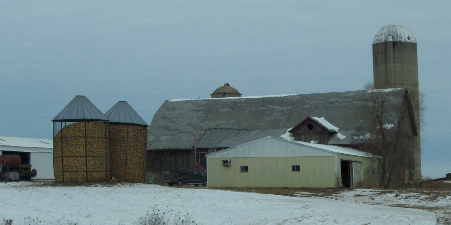 A barn in Shawano County, Wisconsin, USA. Travelling northbound on Wisconsin Highways 117 between Bonduel and Cecil. Taken February 11, 2007 by myself. Cropped from original.